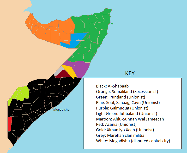 Current political situation of Somalia